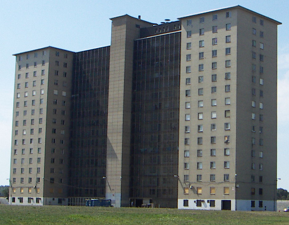 Last remaining Robert Taylor Home (Robert Taylor Homes 22) Photo was taken on 5. September 2005 by Kaffeeringe.de 22:02, 6 April 2007 (UTC)